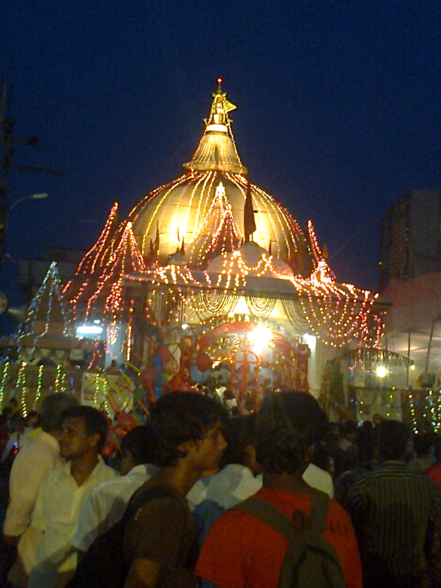 ghawa mai